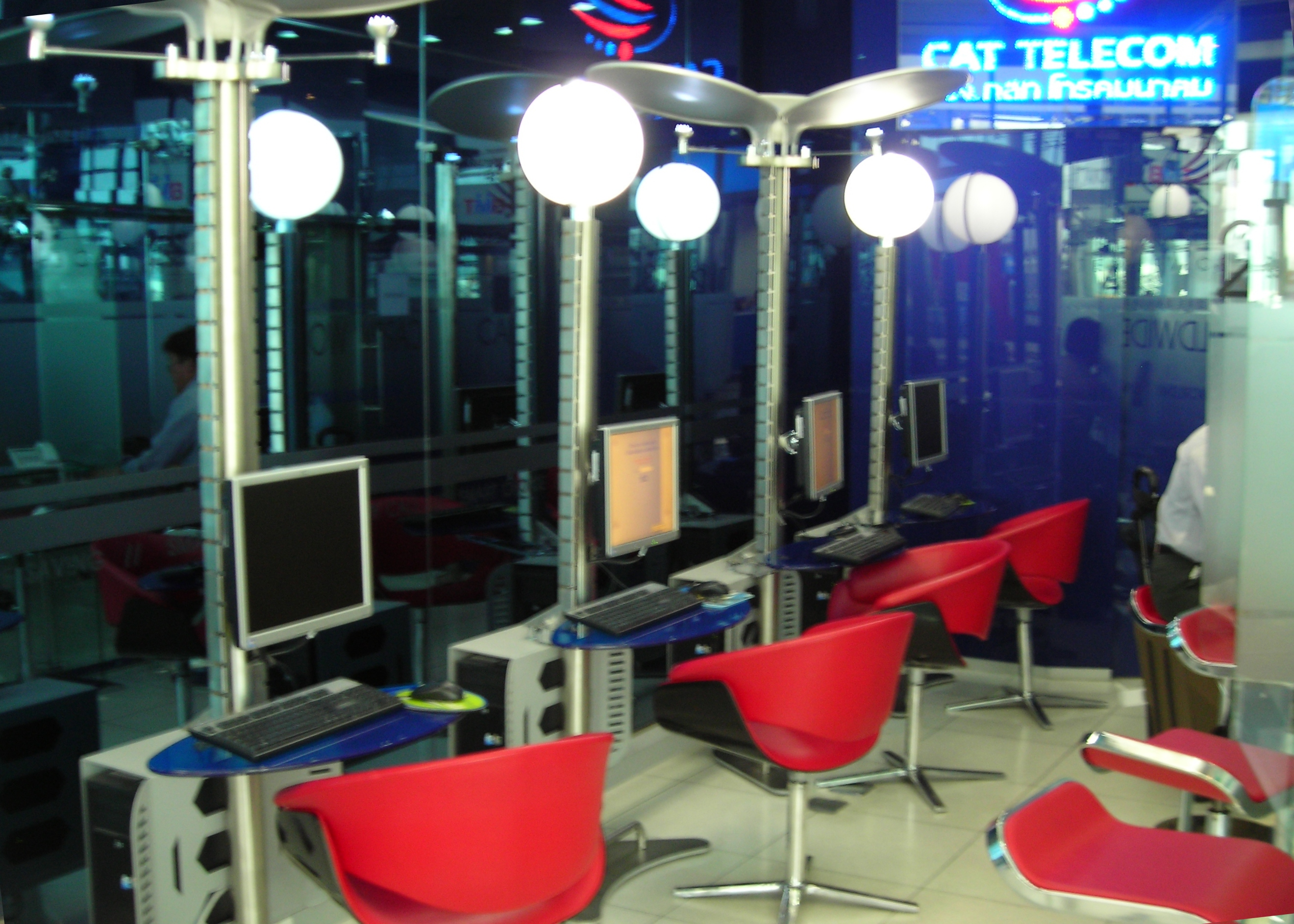 Internet café at Suvarnabhumi International Airport near Bangkok, Thailand. Operator: CAT Telecom Public Company Limited (next to the Post office).